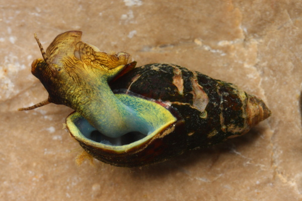 Esperiana esperi, River Kupa/Kolpa, Slovenia